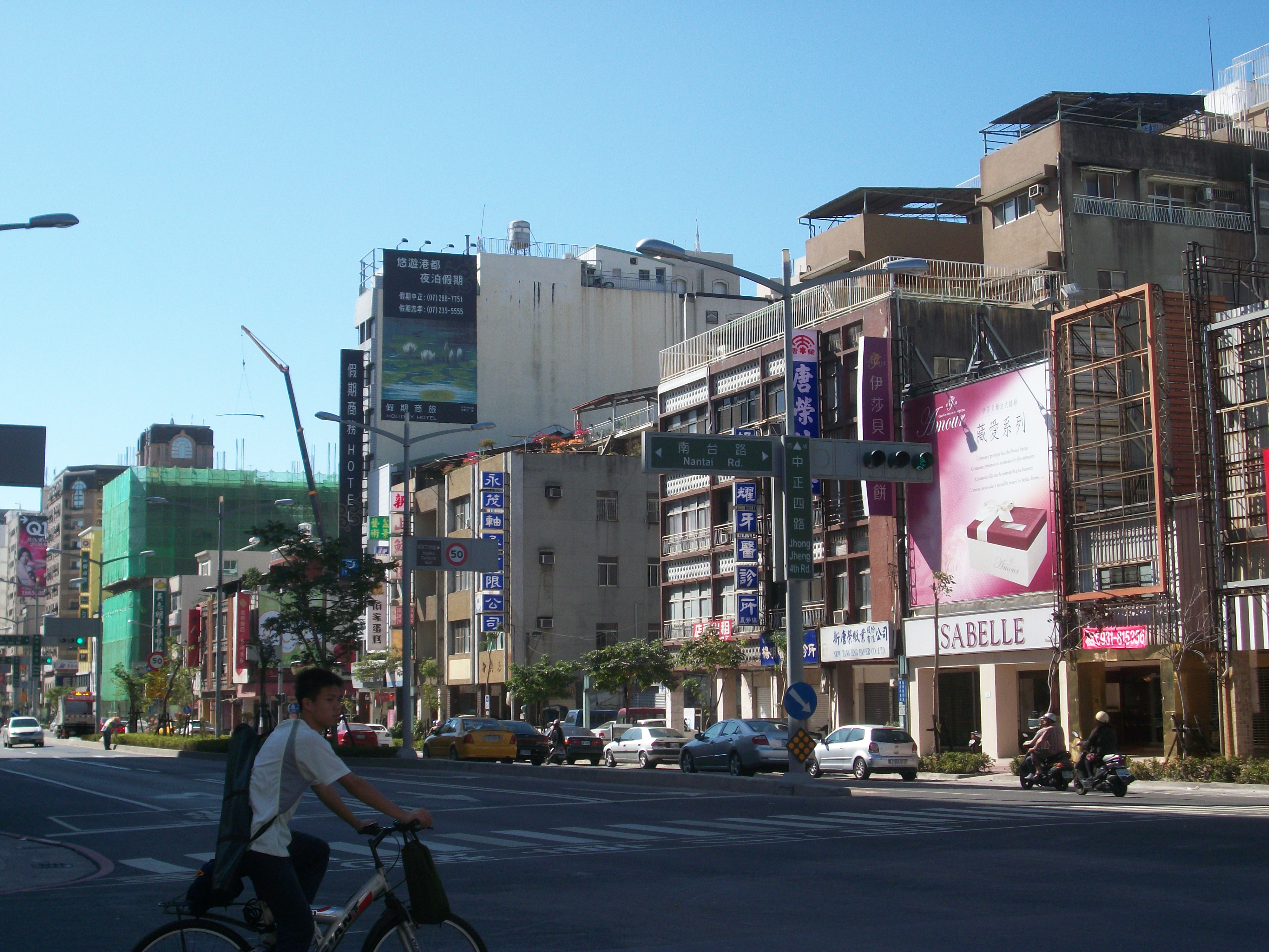 The intersection of Nantai Road and Jhungjheng 4th Road in Kaohsiung City.